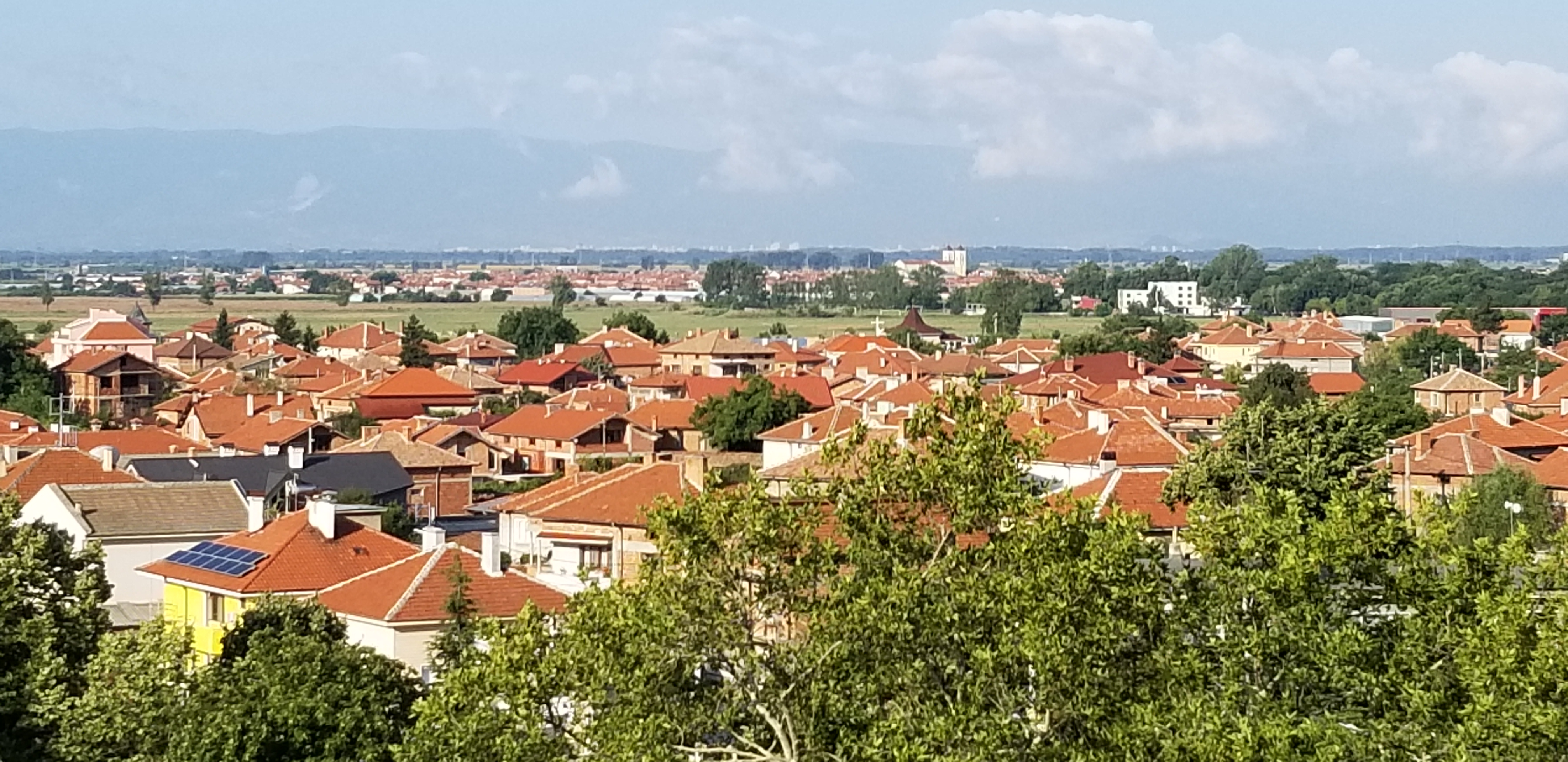 General Nikolaevo quarter view